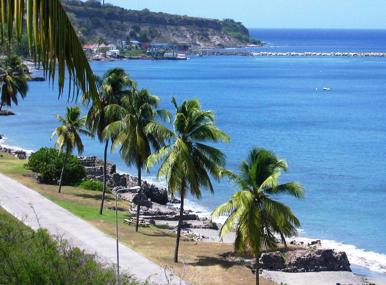 Ruins of 18th century warehouses on the beach of Lower Town, St. Eustatius (Caribean Netherlands)